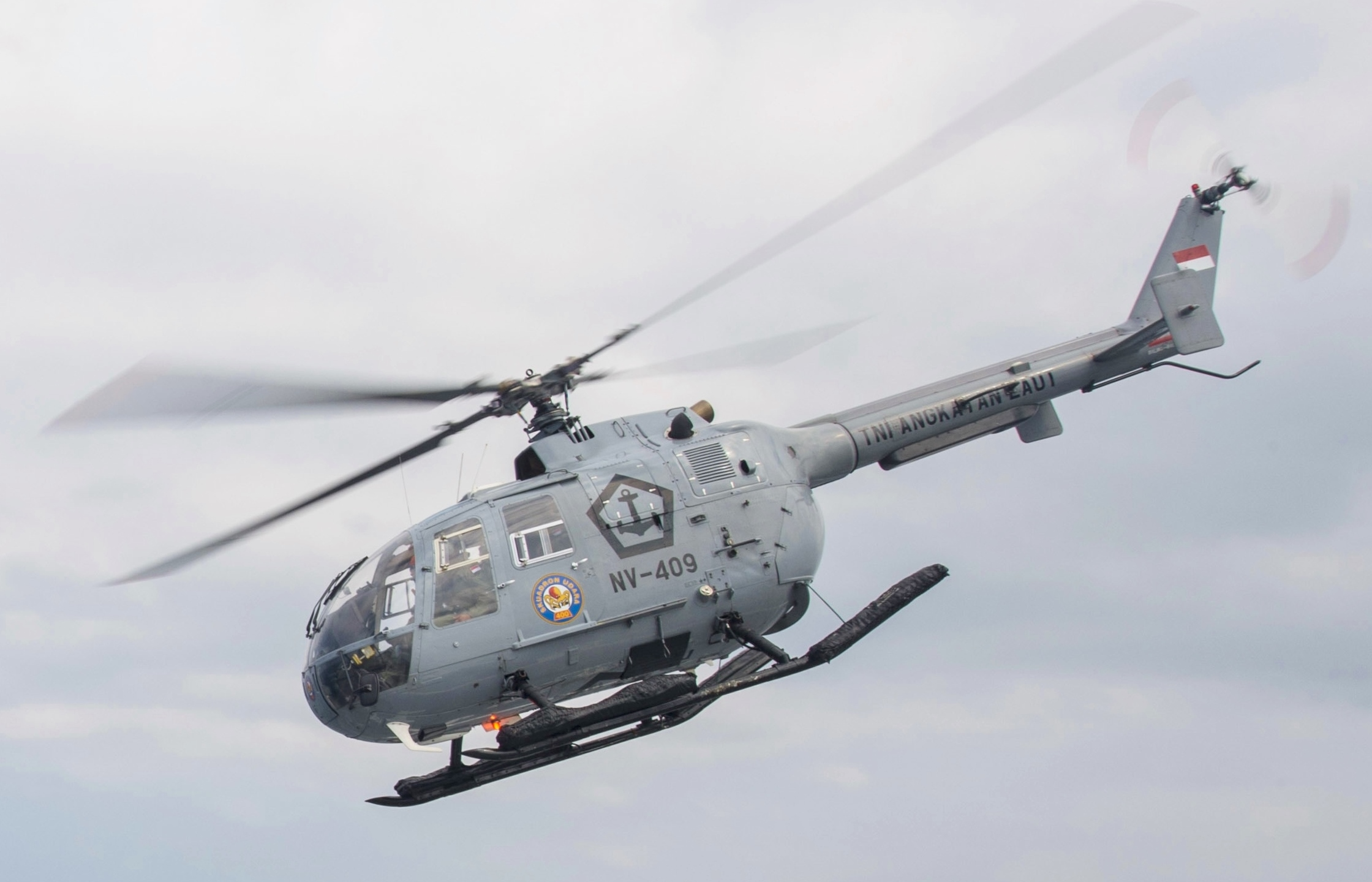 150808-N-MK881-137 SOUTH CHINA SEA (Aug. 8, 2015) Boatswain’s Mate 2nd Class Manuel Gallegos, assigned to the littoral combat ship USS Fort Worth (LCS 3), guides away a Messerschmitt-Bolkow-Blohm Bo 105 Indonesian navy helicopter during a deck landing exercise on the flight deck of Fort Worth as part of Cooperation Afloat Readiness and Training (CARAT) Indonesia 2015. CARAT is an annual, bilateral exercise series with the U.S. Navy, U.S. Marine Corps and the armed forces of nine partner nations. (U.S. Navy photo by Mass Communication Specialist 2nd Class Joe Bishop/Released)